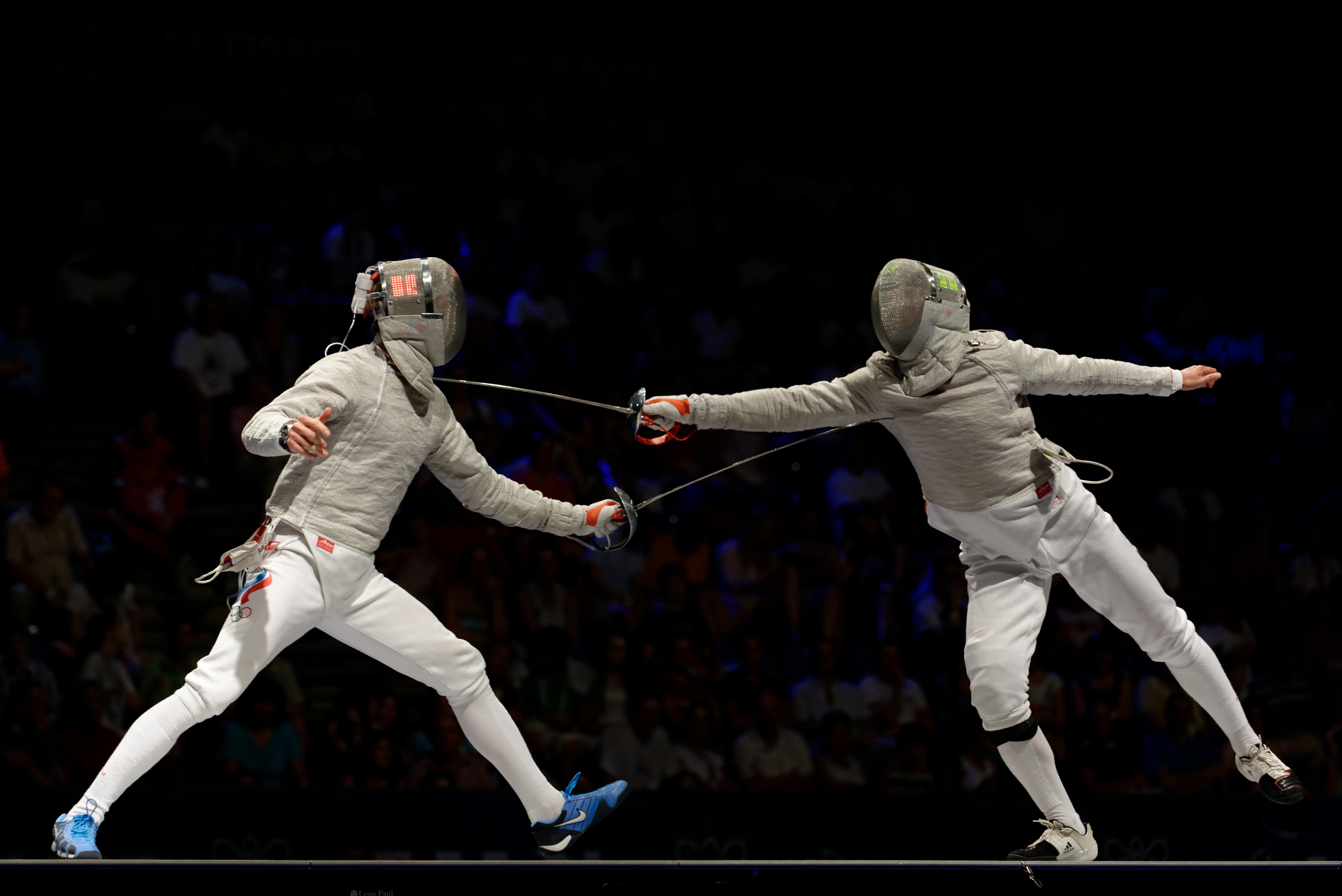 Russia's Veniamin Reshetnikov (L) competes against his fellow countryman Nikolay Kovalev (R) in the final of the men's sabre event in the 2013 World Fencing Championships at Syma Hall in Budapest, 10 August 2013.